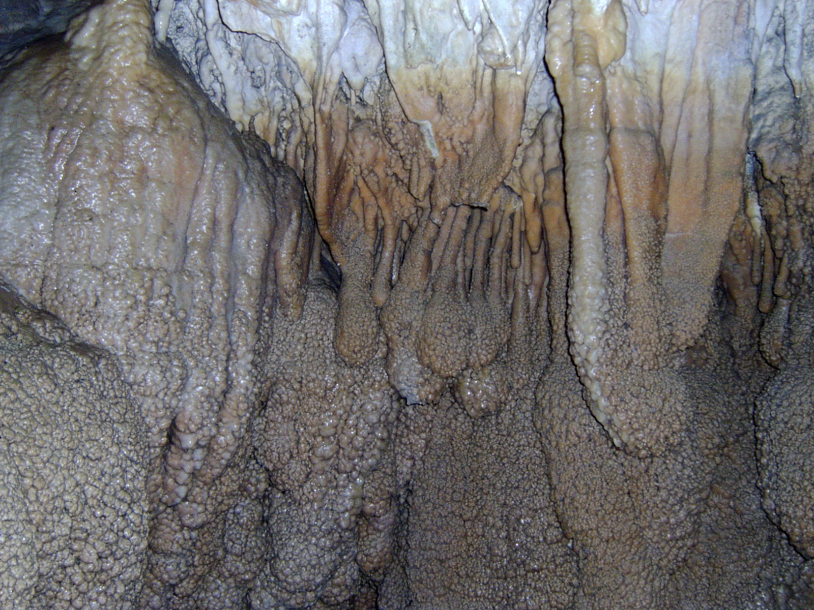 The formations below the previous water level. Baar cave. Switzerland. Audriusa 17:22, 17 December 2005 (UTC)